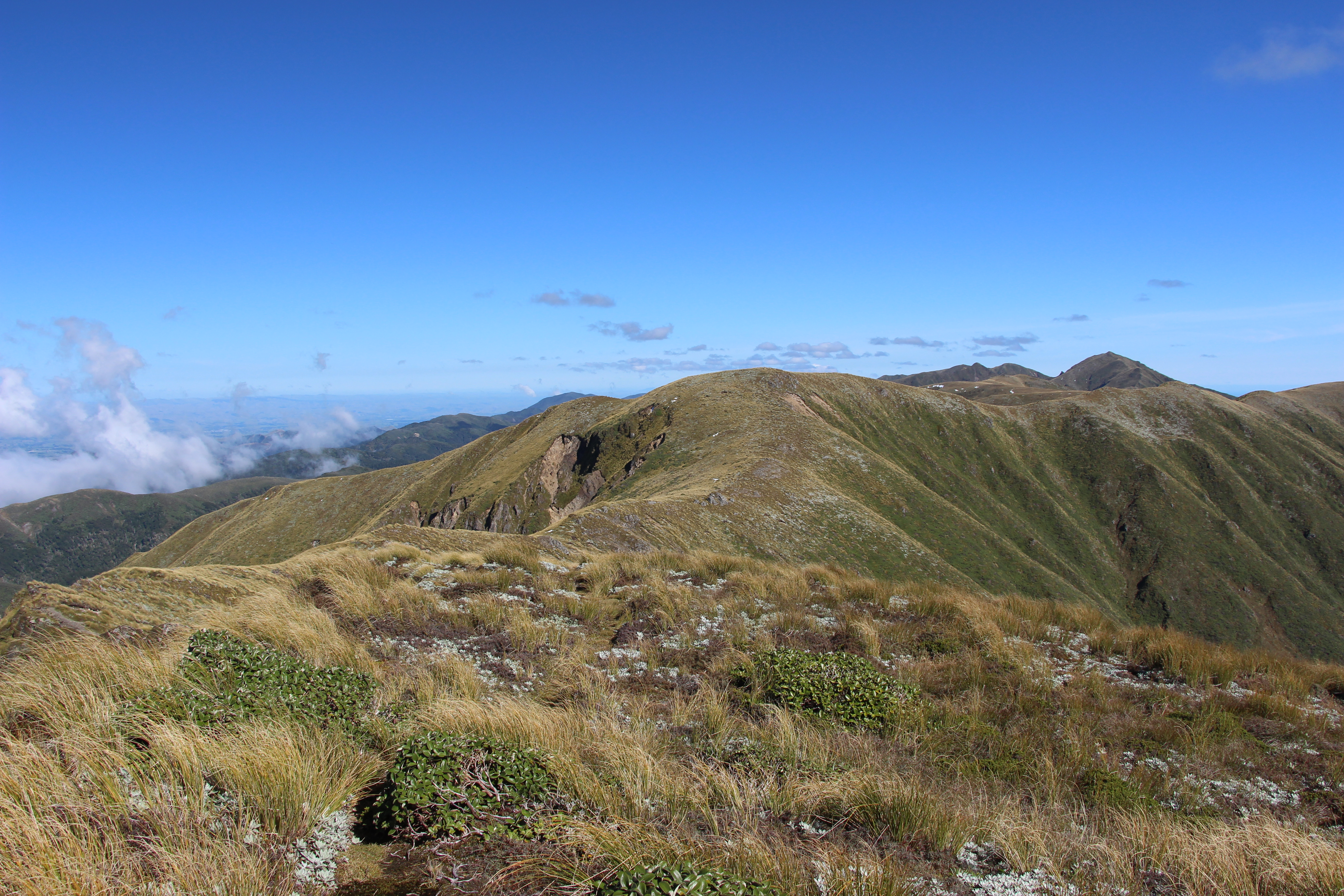 Taumatataua from south and Daphne Spur, tramping track in Ruahine Mountains, New Zealand